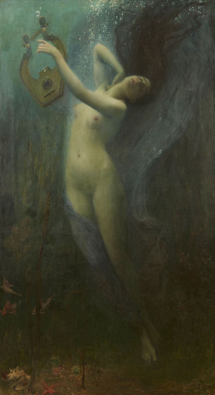 Charles Amable Lenoir - The Death of Sappho (1896)